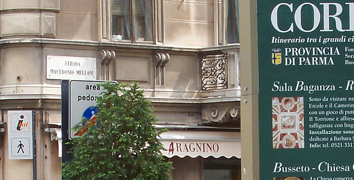 Font "Bodoni" at Parma (Italy)